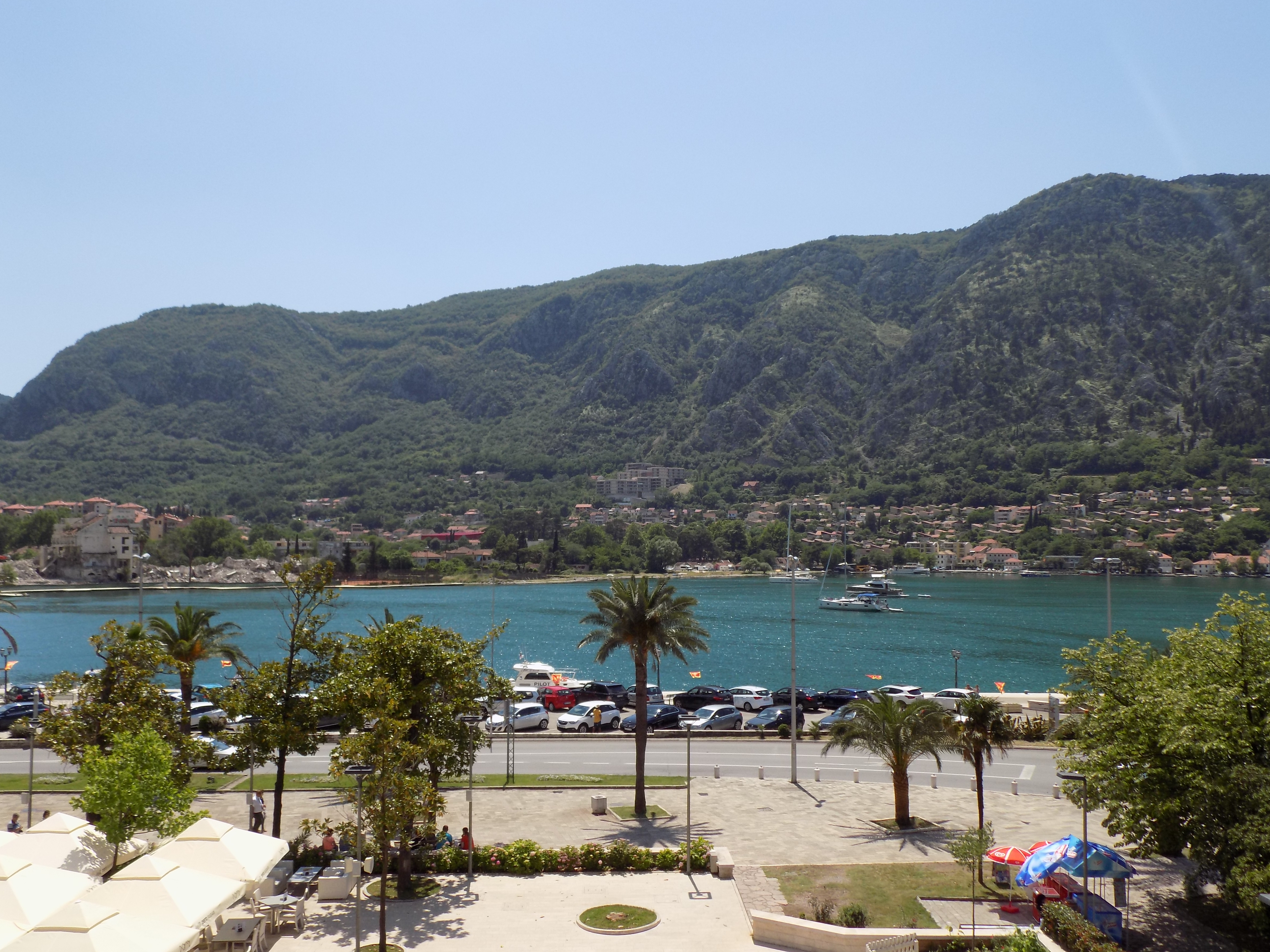 Kotor, the waterfront in front of the entrance to the Old Town